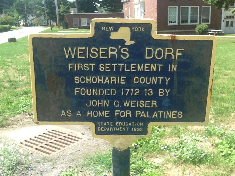 I took this photograph with my iPad on August 2, 2012 in Middleburgh, New York.